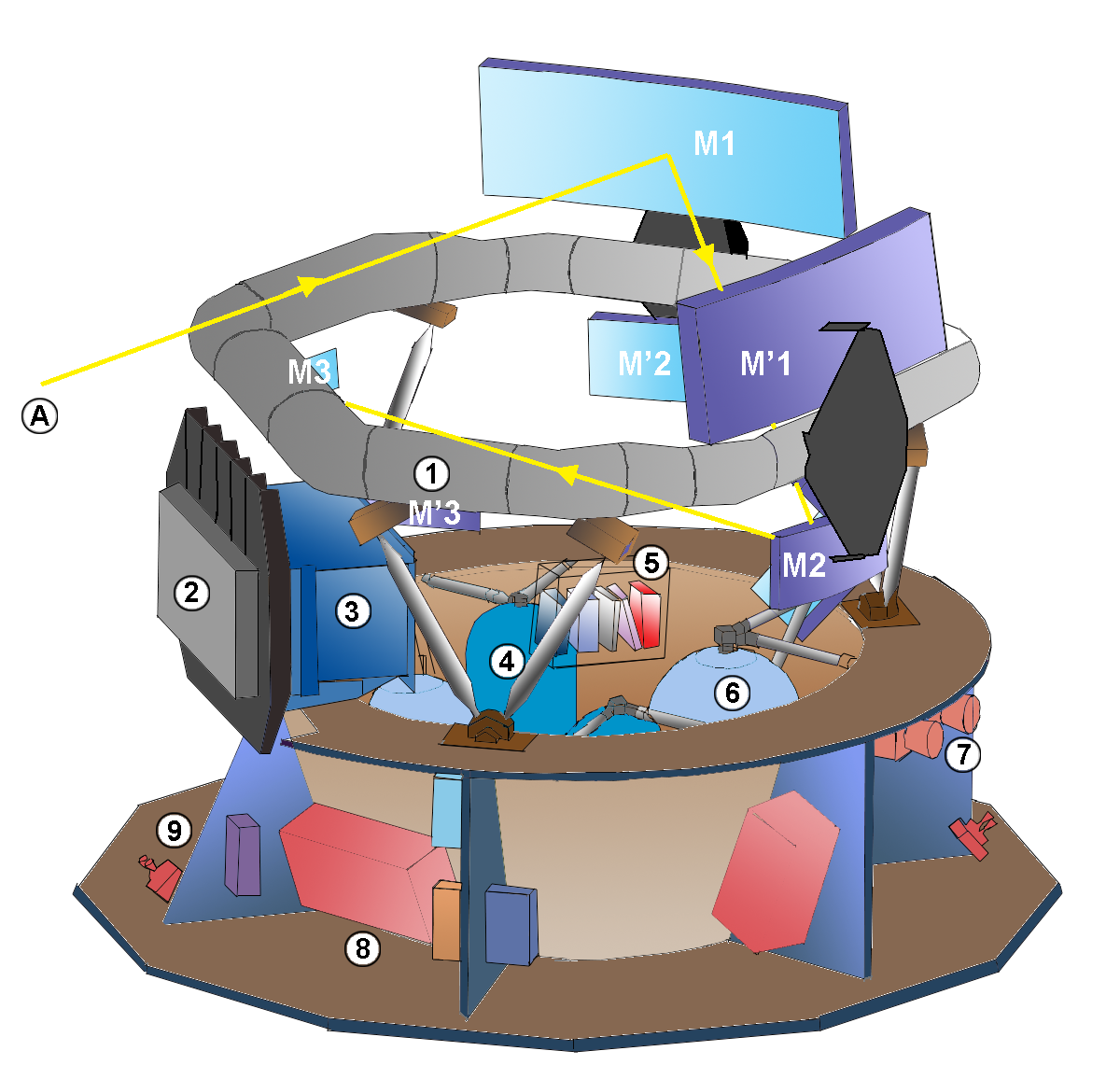 Diagram of Gaia without its 10-metre diameter sunshade: M1, M2 and M3: mirrors of telescope 1 M'1, M'2 and M'3: mirrors of telescope 2 Mirrors not shown: M4, M'4, M5, M6 A: Light path of telescope 1 between mirrors M1—M2—M3 1: Optical bench (silicon carbide torus) 2: Cooling radiator 3: Focal plane electronics 4: Nitrogen tanks 5: Diffraction grating spectroscope 6: Liquid propellant tanks 7: Star trackers 8: Telecommunication panel and batteries 9: Main propulsion subsystem.